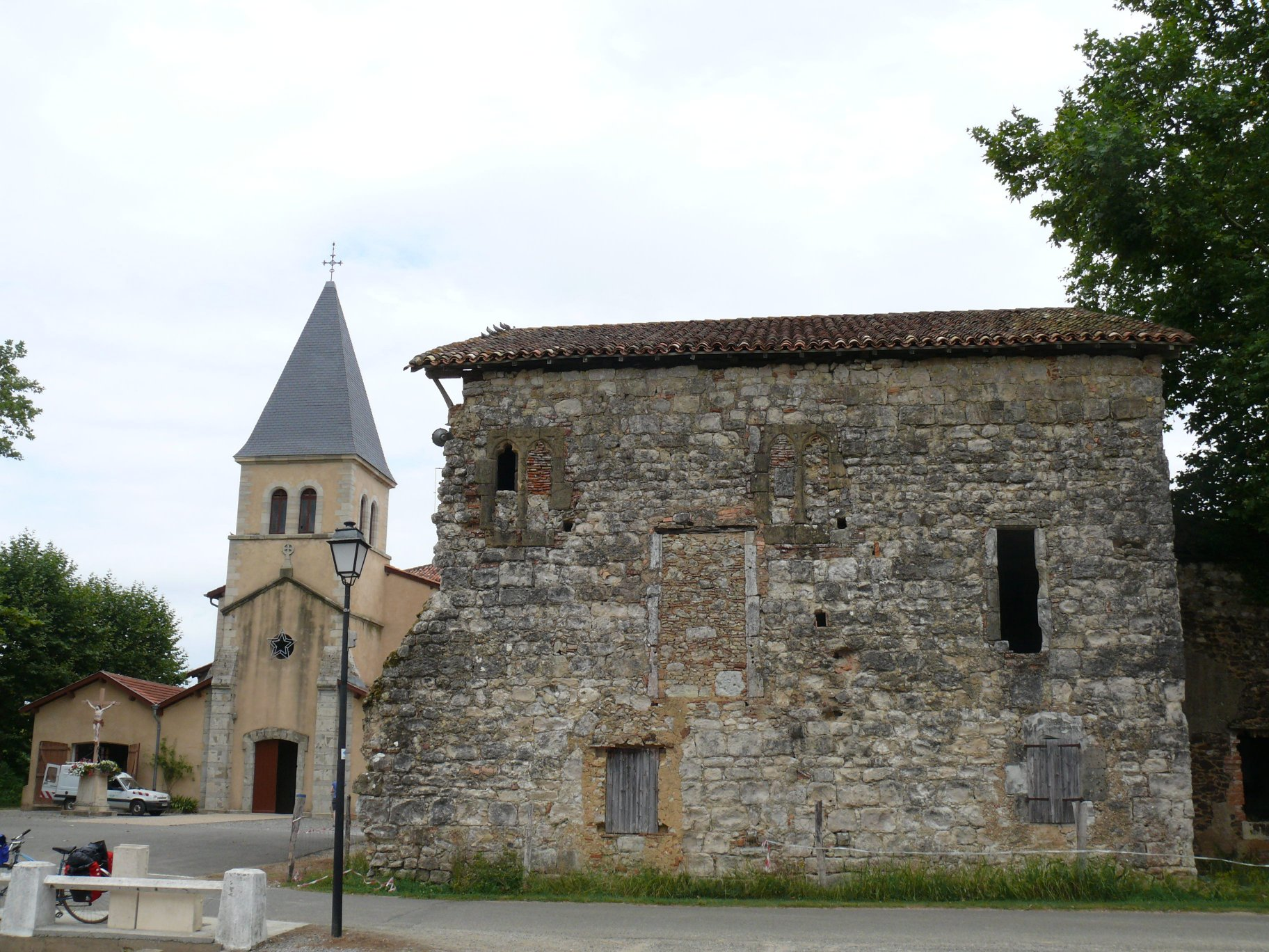 Old building of the abbaye of Cagnotte (Landes, Aquitaine, France).